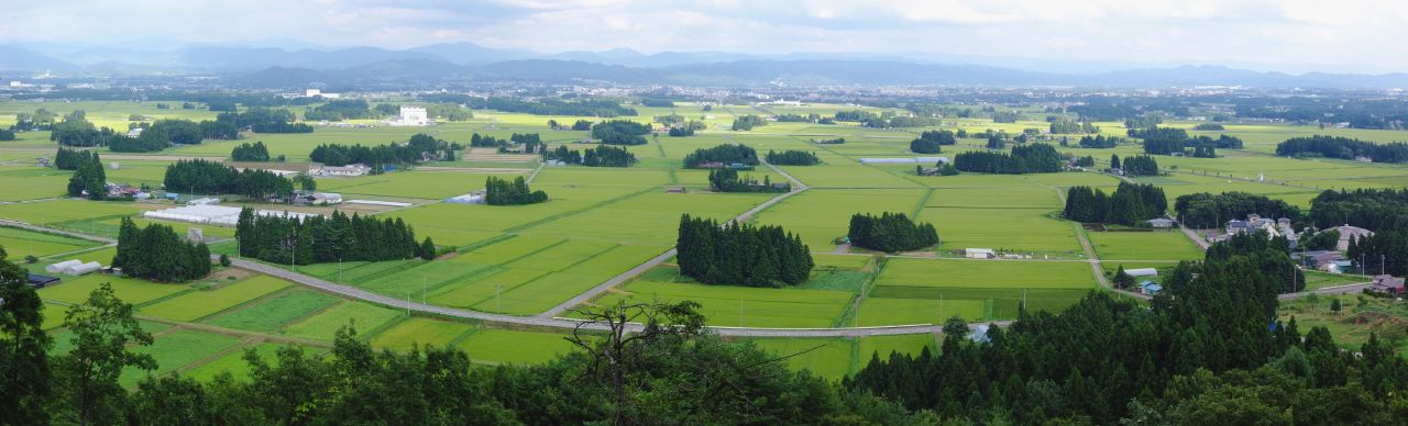 Hanamaki City View from Enmanji-Kanon